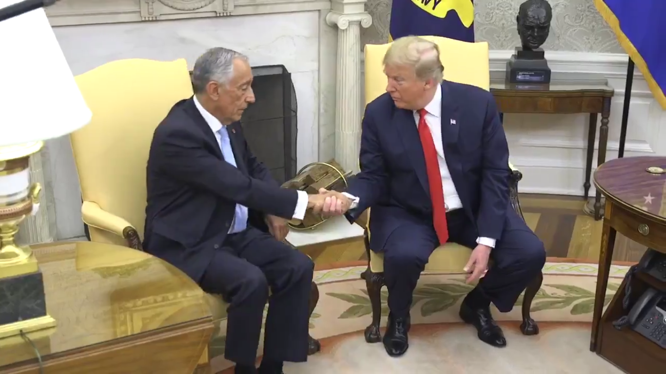 Portuguese President Marcelo Rebelo de Sousa and POTUS Donald Trump in the Oval Office, 27 June 2018.